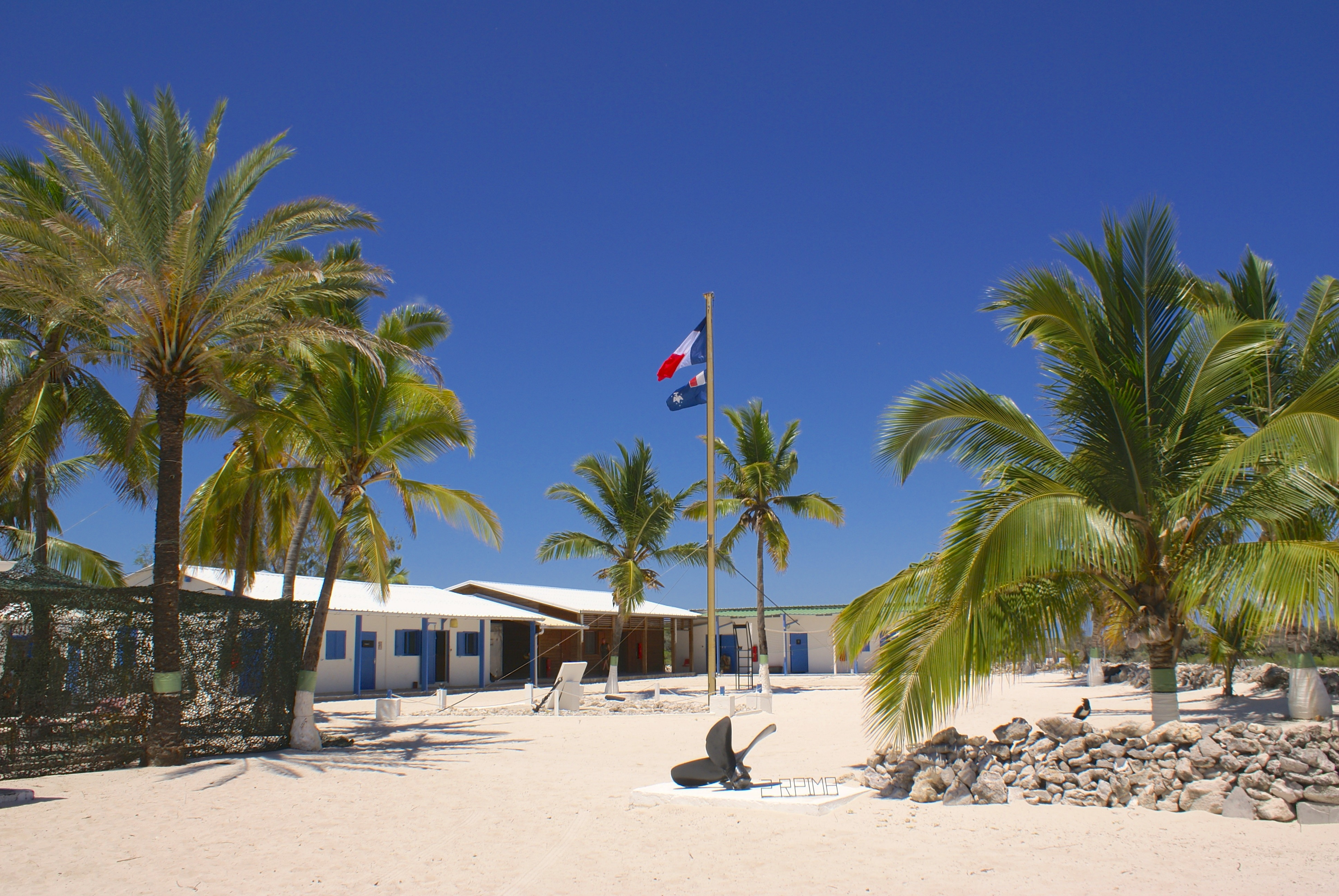 The military buildings on Europa Island